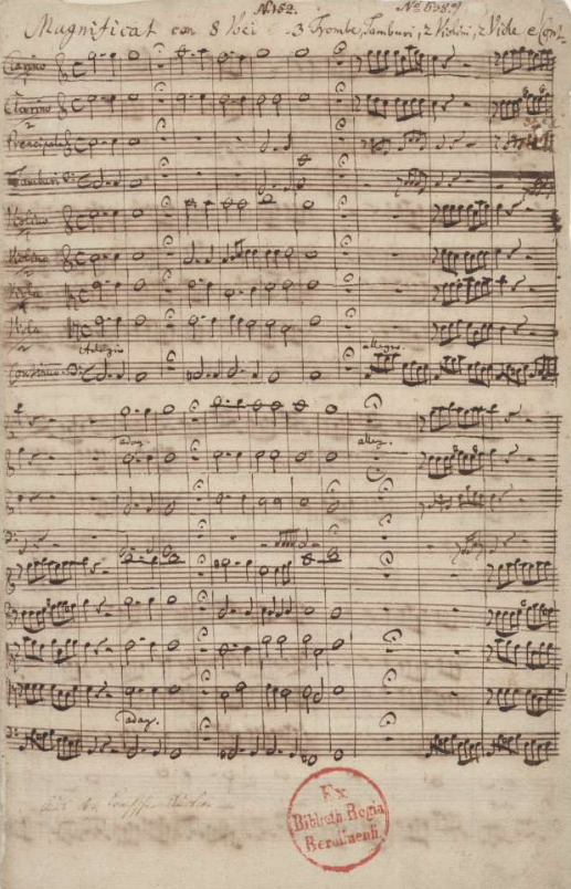 Manuscript written by Johann Sebastian Bach, written around 1742, in which he copied and arranged Torri's Magnificat, which was likely composed in the last decade of the 17th century